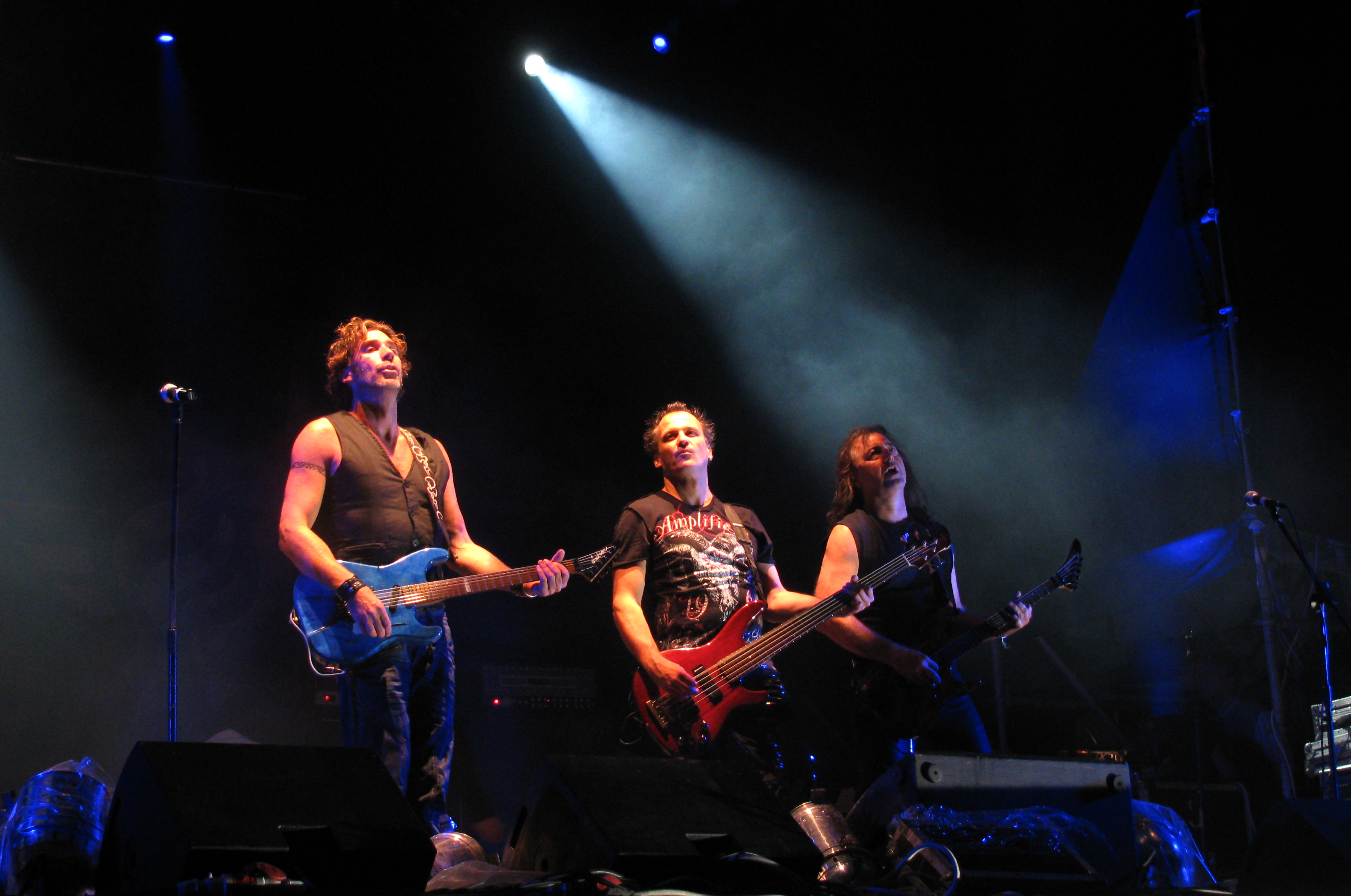 Bonfire playing at Global East Rock Festival 2010